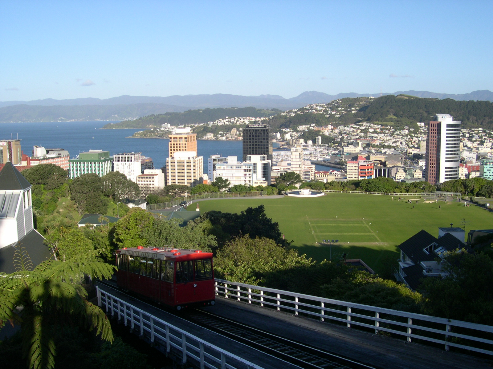 Wellington Cable Car, Downtown and Rimutaka Range in Background. Wellington, New Zealand.